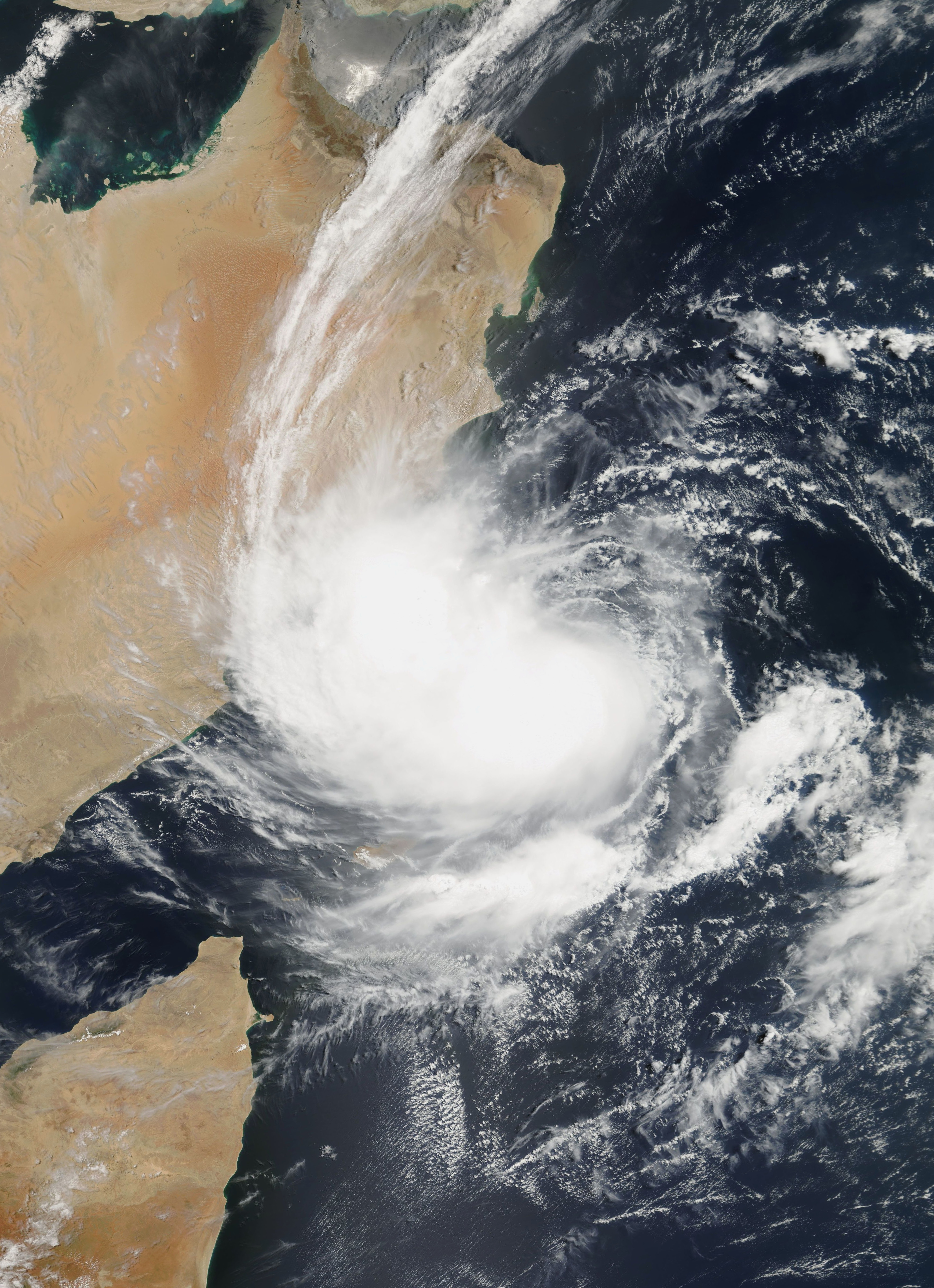 Tropical Cyclone ARB 01 near peak intensity south of Oman on May 9, 2002